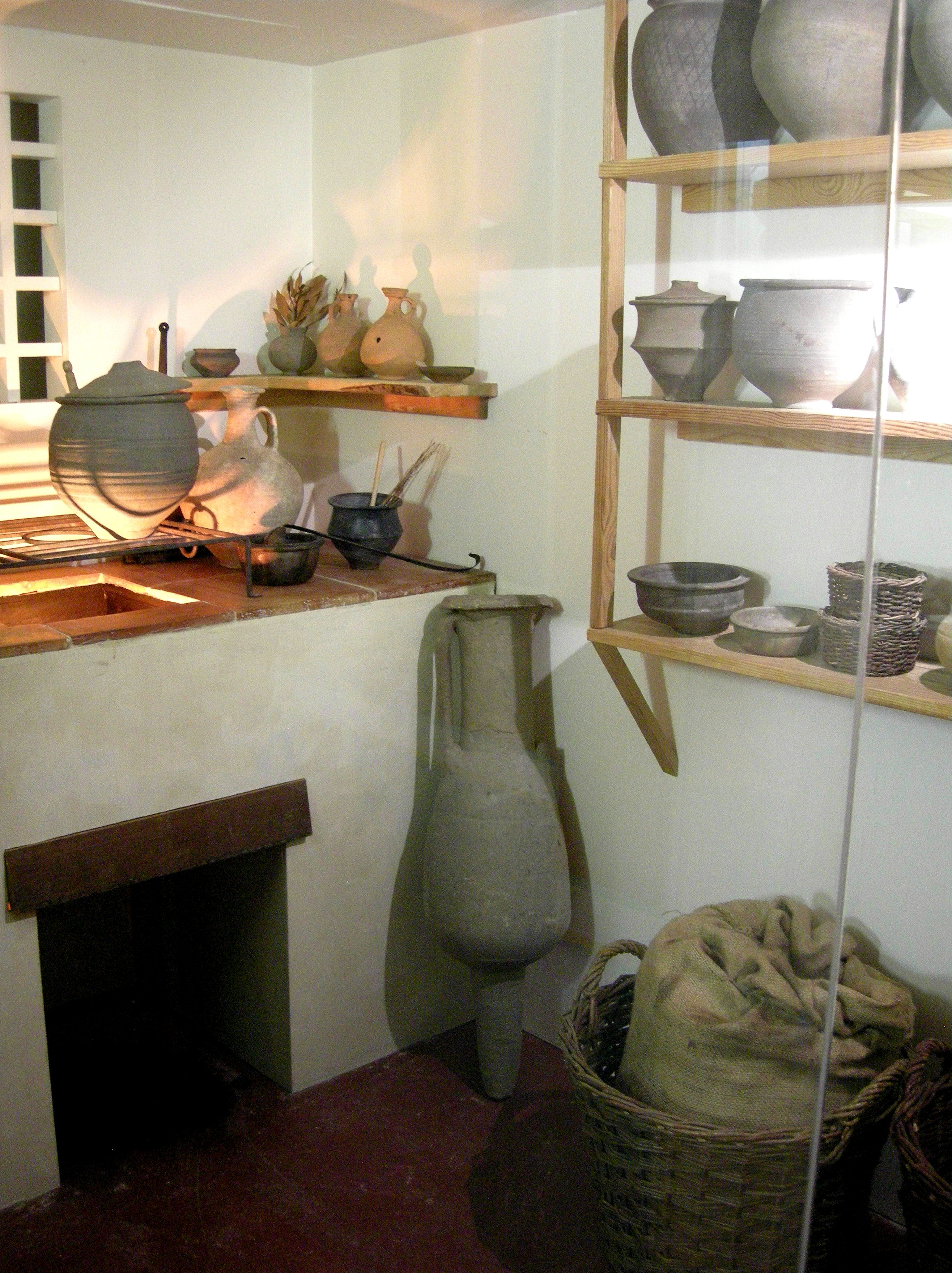 Roman Museum in Butchery Lane, Canterbury, Kent. Reconstruction of Roman kitchen, with original Roman pottery.